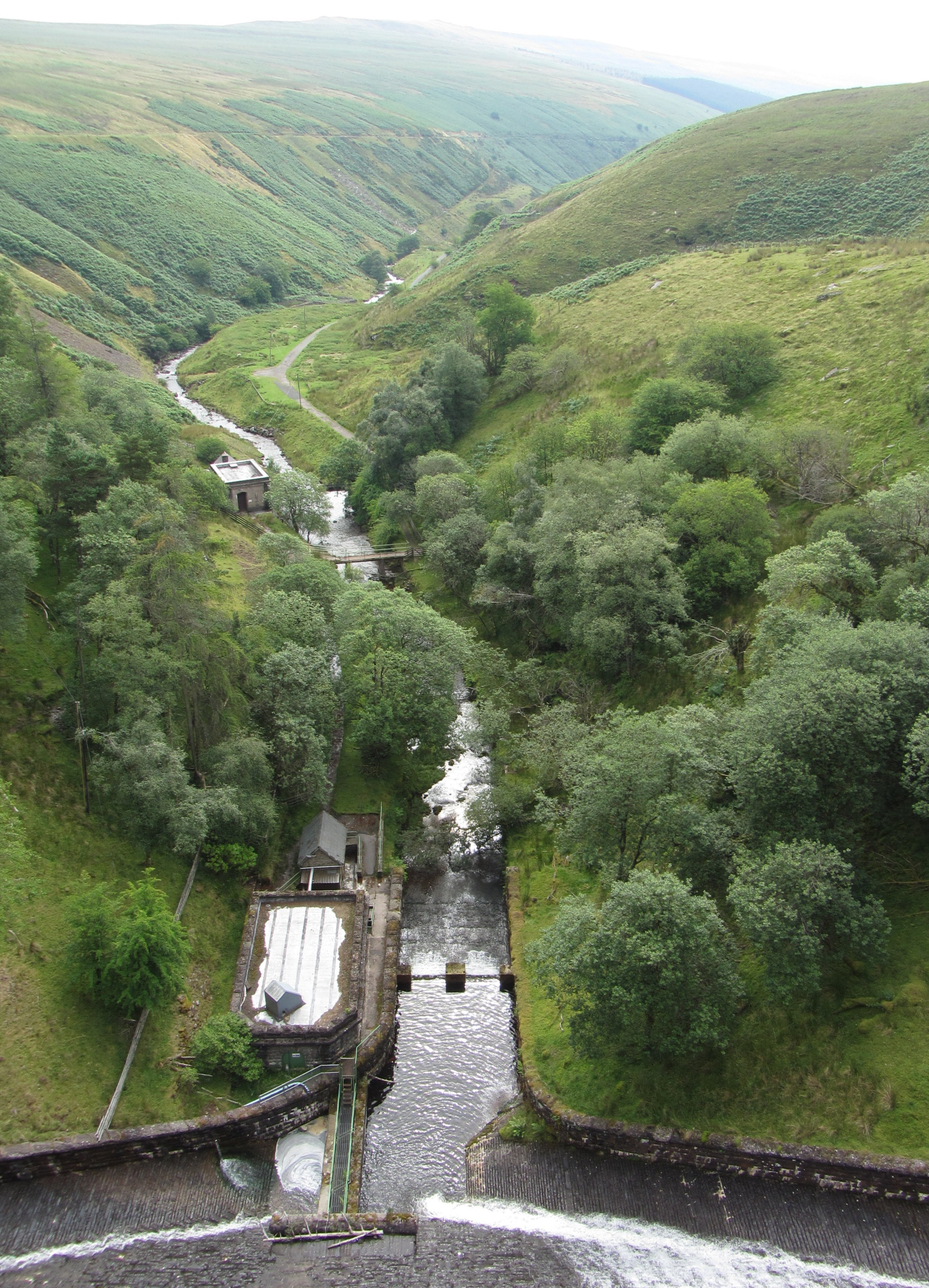 The Grwyne Fawr below the reservoir dam spillway